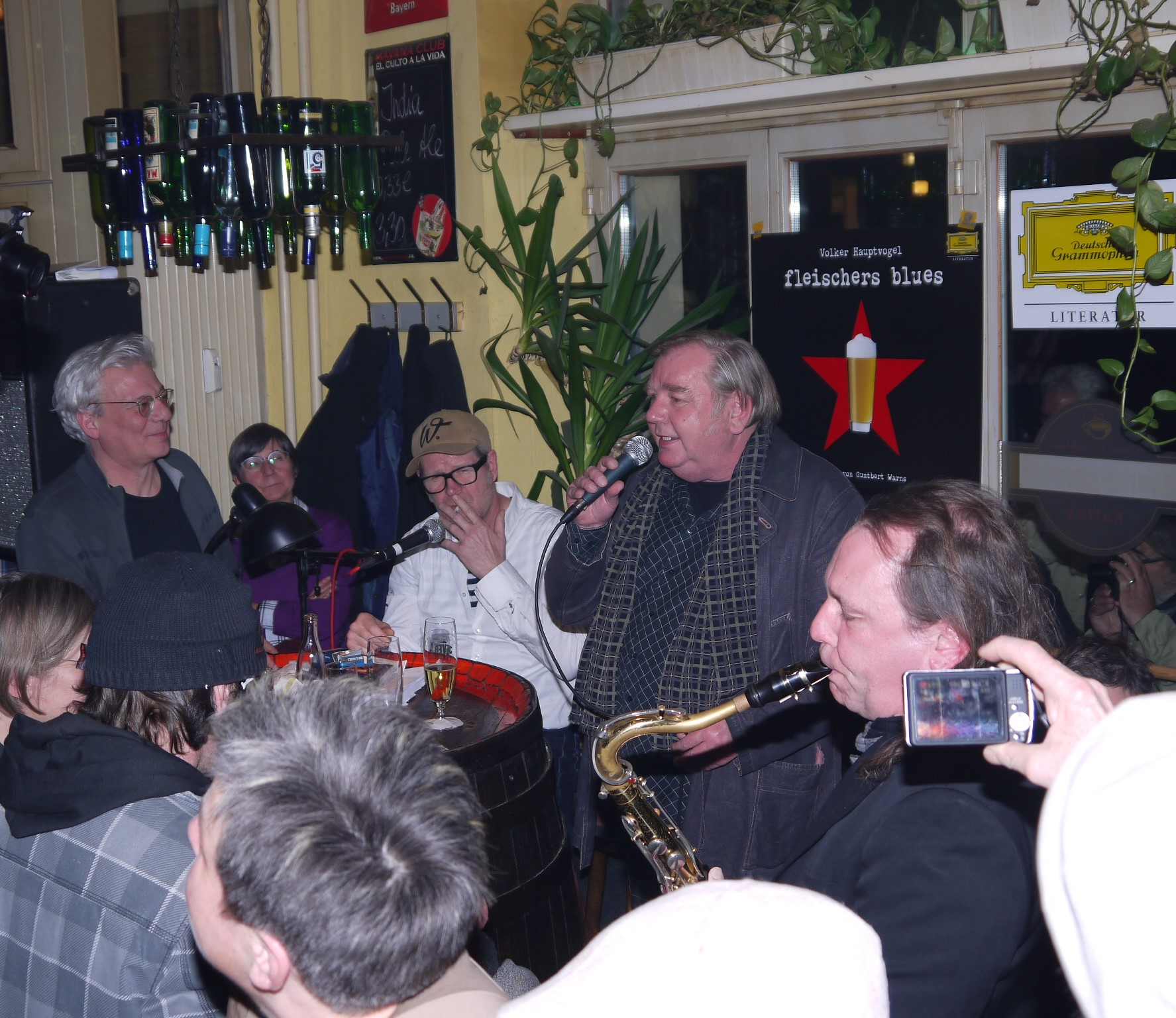 Hauptvogel while presenting his new book